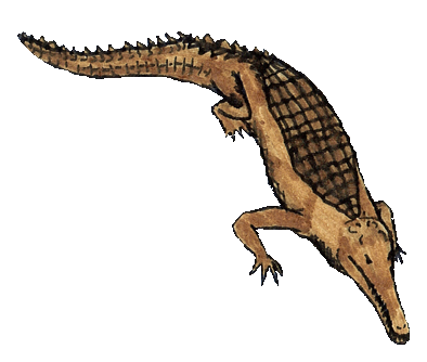 Gryposuchus croizati, a ten meter long gharial from the Miocene of Brazil.